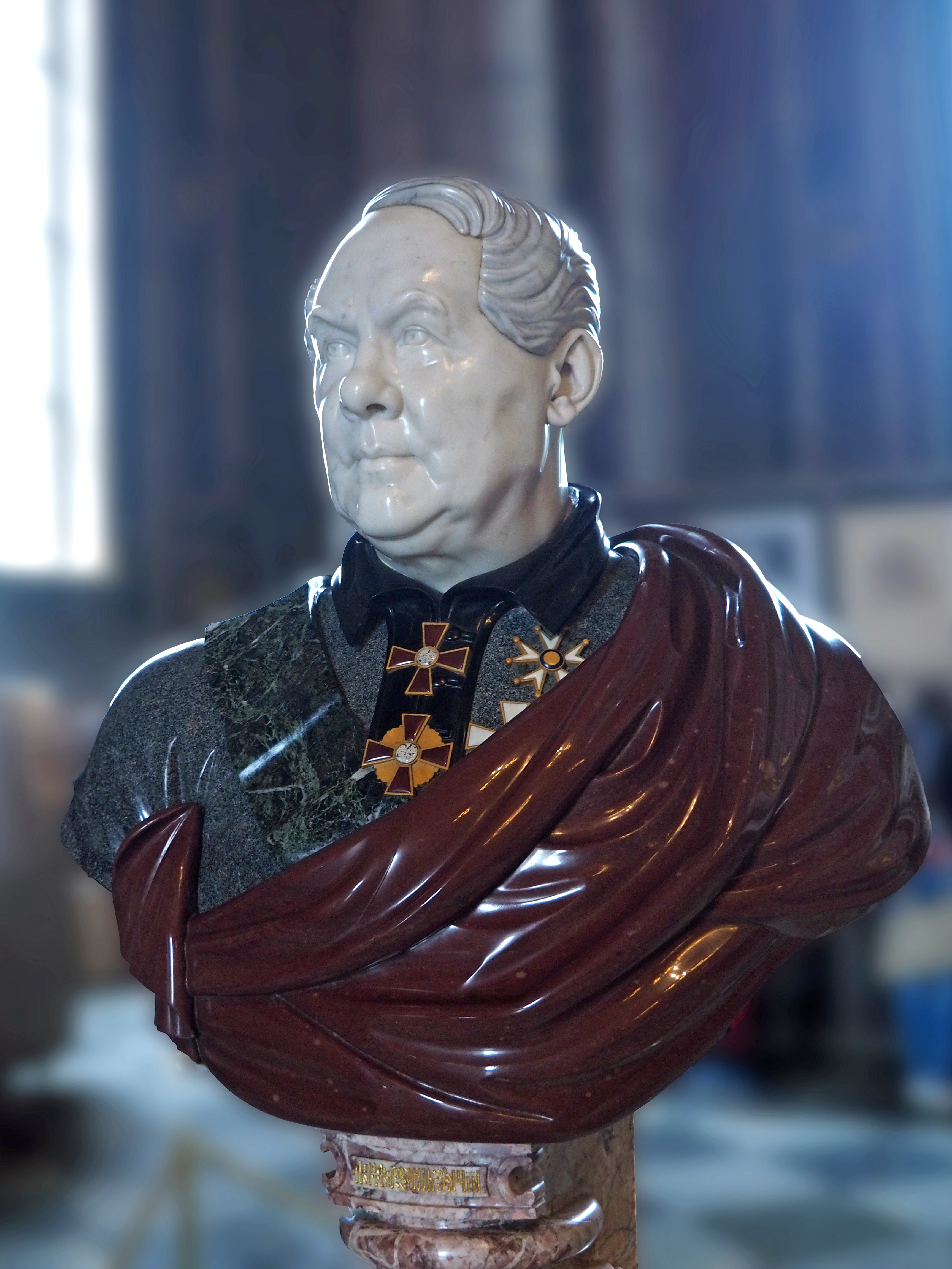 St.Isaac's. Bust of Auguste de Montferrand